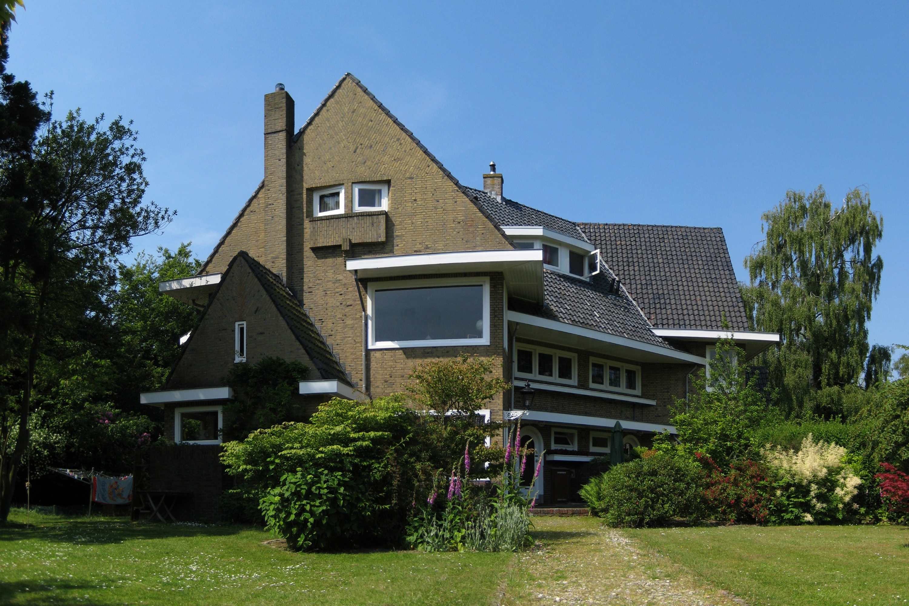 House (1931) in the Dutch city of Groningen.